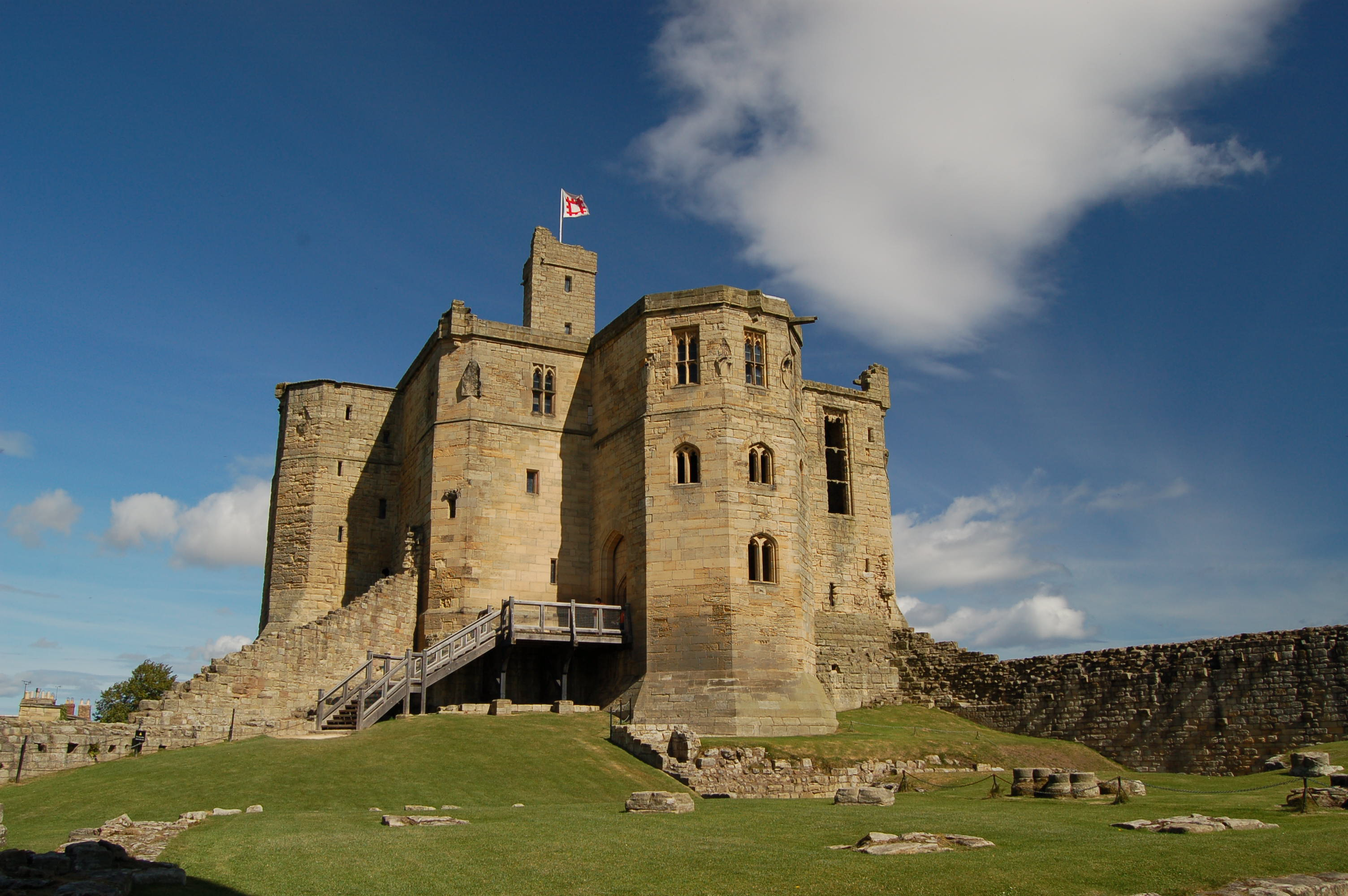 Warkworth Castle, 2007.